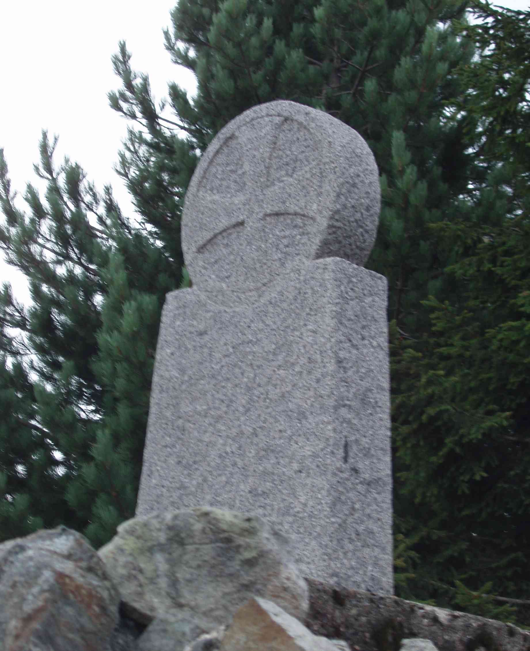 Fra Dolcino monument (Mount Rubello, Italy)